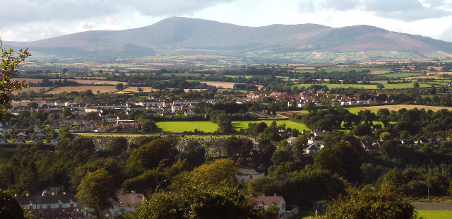 Enniscorthy & Blackstairs Mountains. Windmill Hill, site of the battle of Vinegar Hill 1798, offers astonishing views in all directions. The site is 1km east of Enniscorthy. Looking west, Mount Leinster dominates (TV mast just visible on the summit). Parts of Enniscorthy in the middle foreground